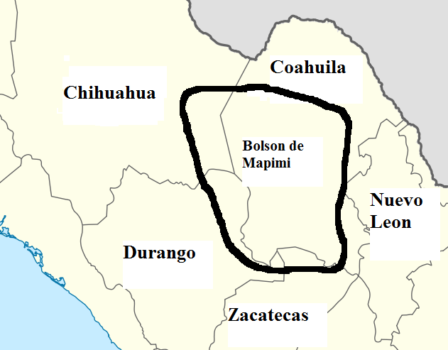 An outline map of the Bolson de Mapimi in northern Mexico.